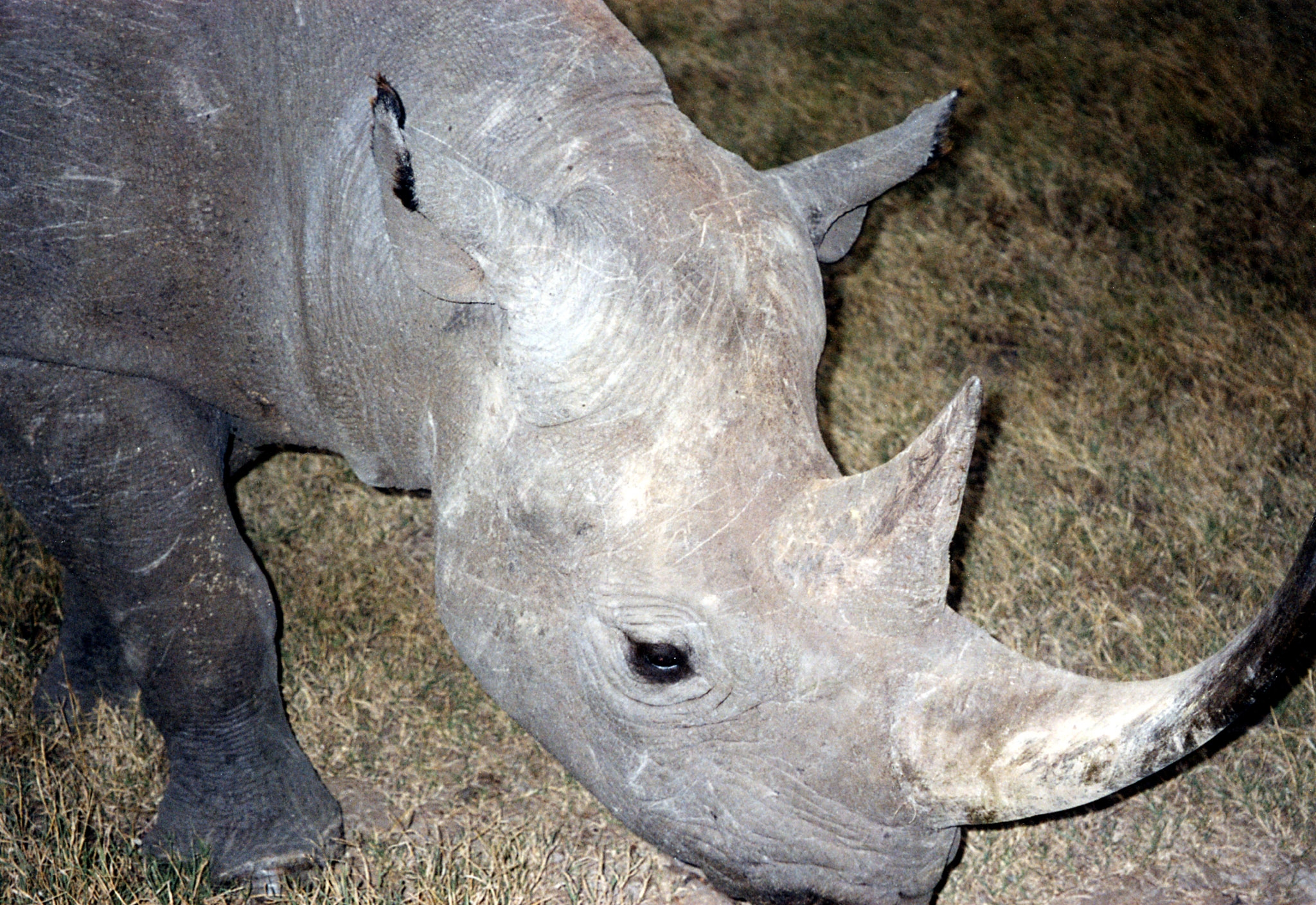 Black Rhinoceros in Sweetwaters Tented Camp, Kenya